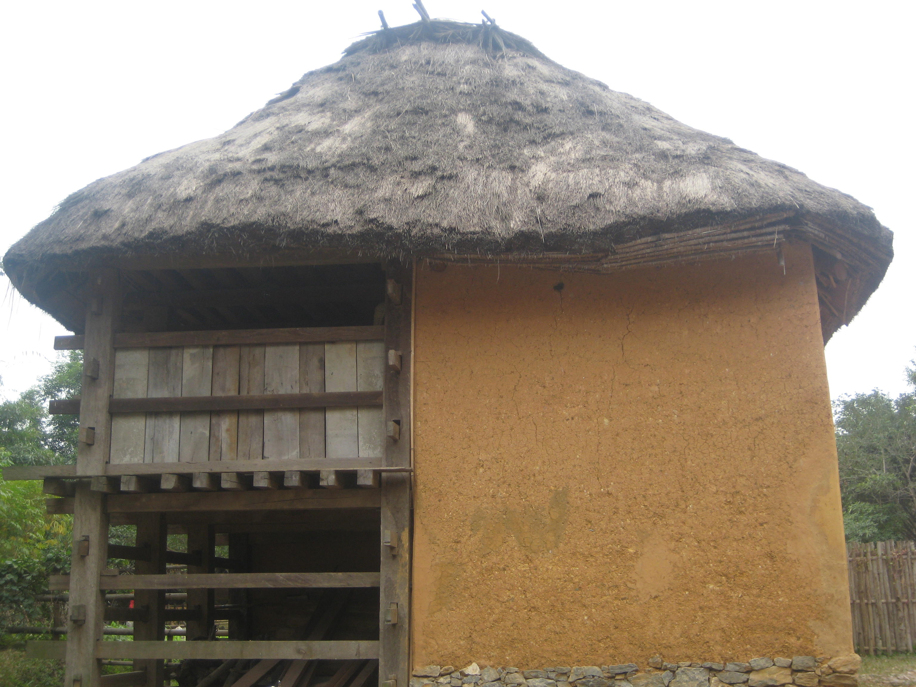 A House of Hani people (side view) (Vietnam Museum of Ethnology)